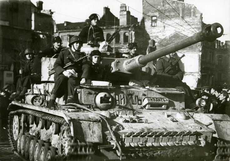 Bulgarian troops entering Nish, Serbia in October 1944.